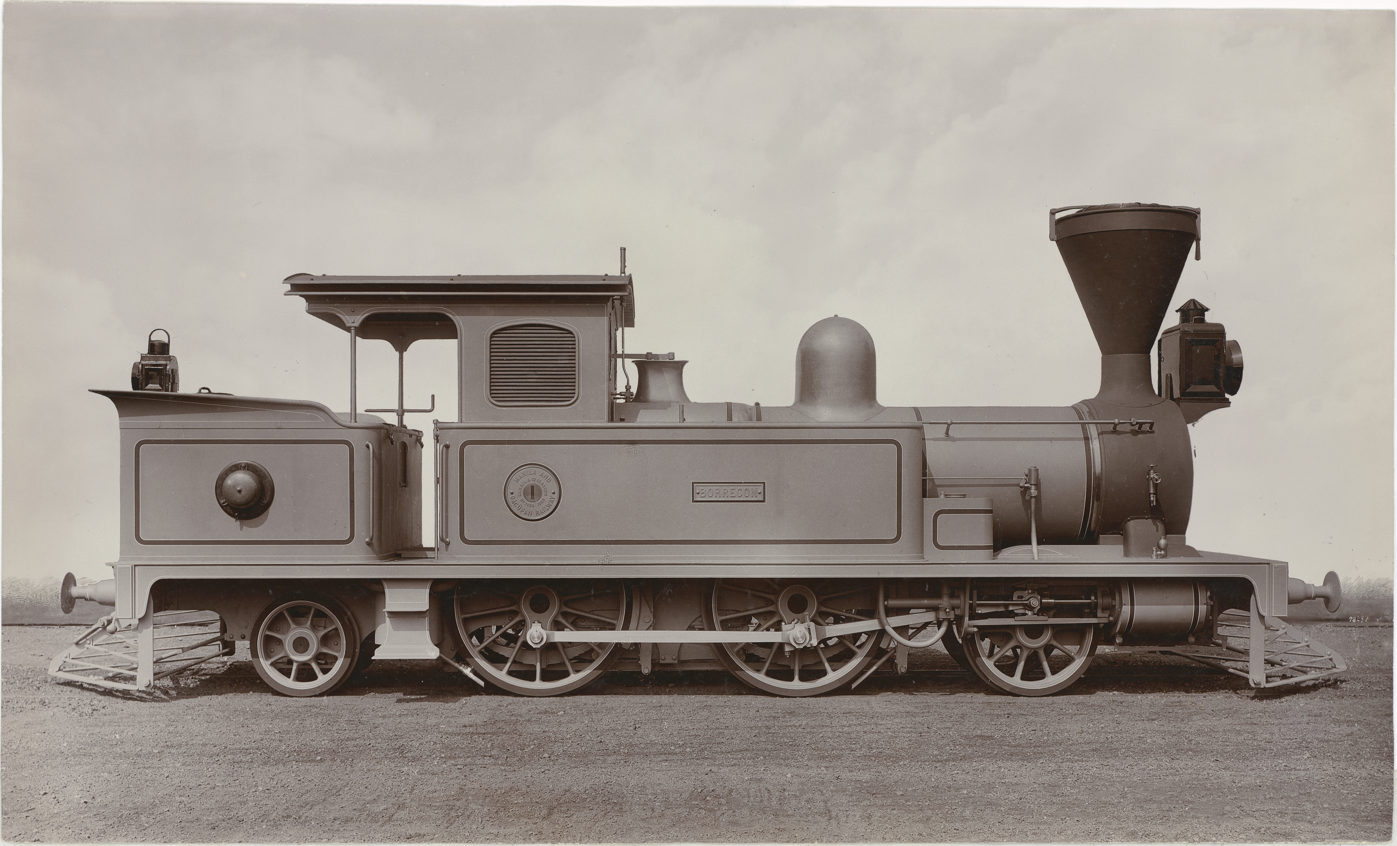 An image of Manila-Dagupan Railway locomotive "Borrecon". It was a 0-6-2 locomotive built by Neilson and Company of Glasgow in 1889. This image is in the public domain under CC-BY-SA 4.0 by ETH Zurich. Attribution and a link to the original file may be found on the description for "Source". Tagalog: Ito ay isang larawan ng lokomotibang 0-6-2 na "Borrecon" na ginamit ng Daangbakal ng Maynila at Dagupan. Ito ay itinayo ng Neilson and Company sa Glasgow noong 1889. Alinsunod sa CC-BY-SA 4.0 na iginawad ng ETH Zurich sa larawang ito, ang link na papunta sa orihinal na talaksan ay makikita sa "Source".